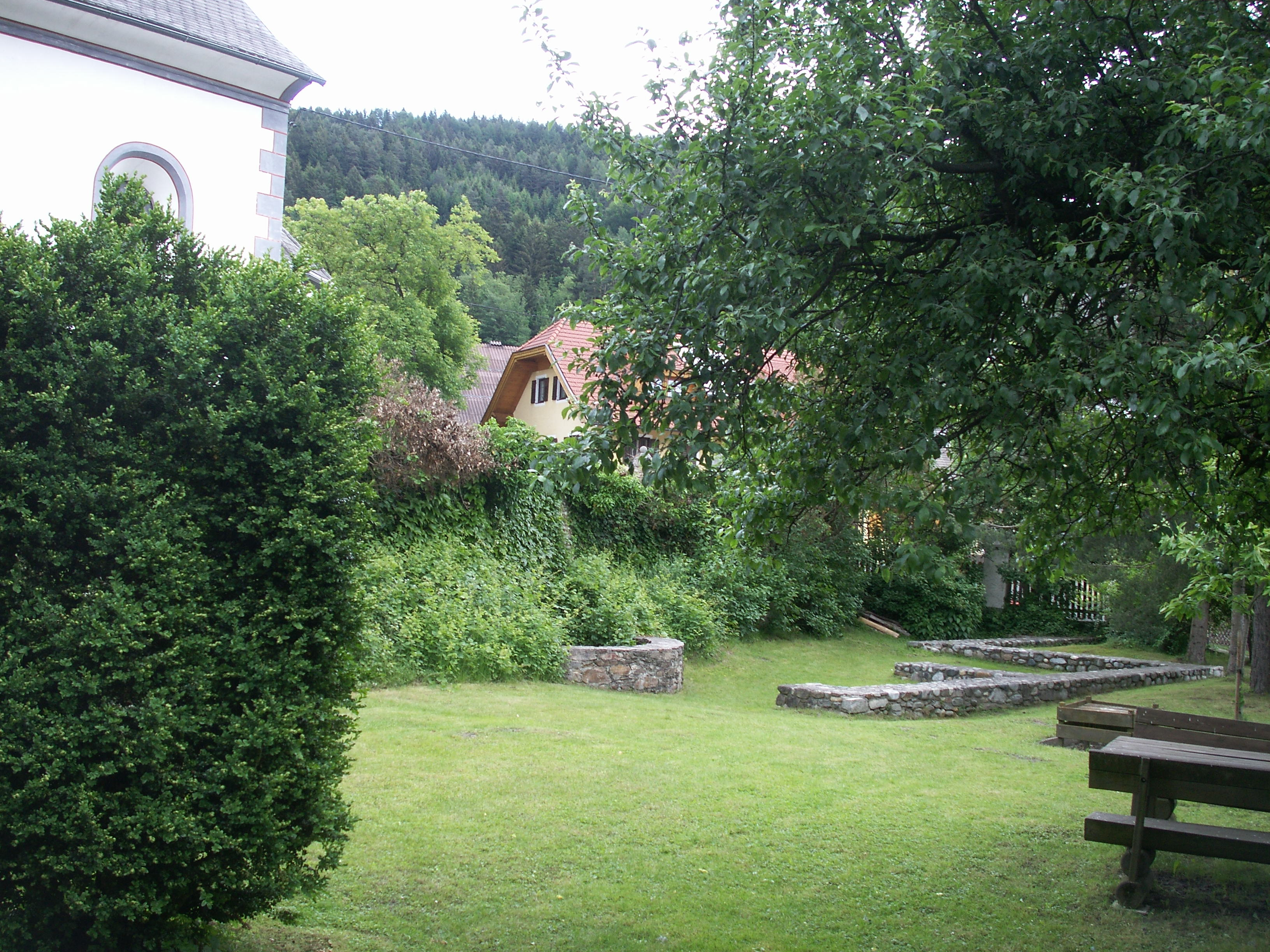 Church in Molzbichl near Spittal an der Drau in Carinthia / Austria / EU. Foundation walls of the eldest Carinthian Abbey founded around 772 and 788.